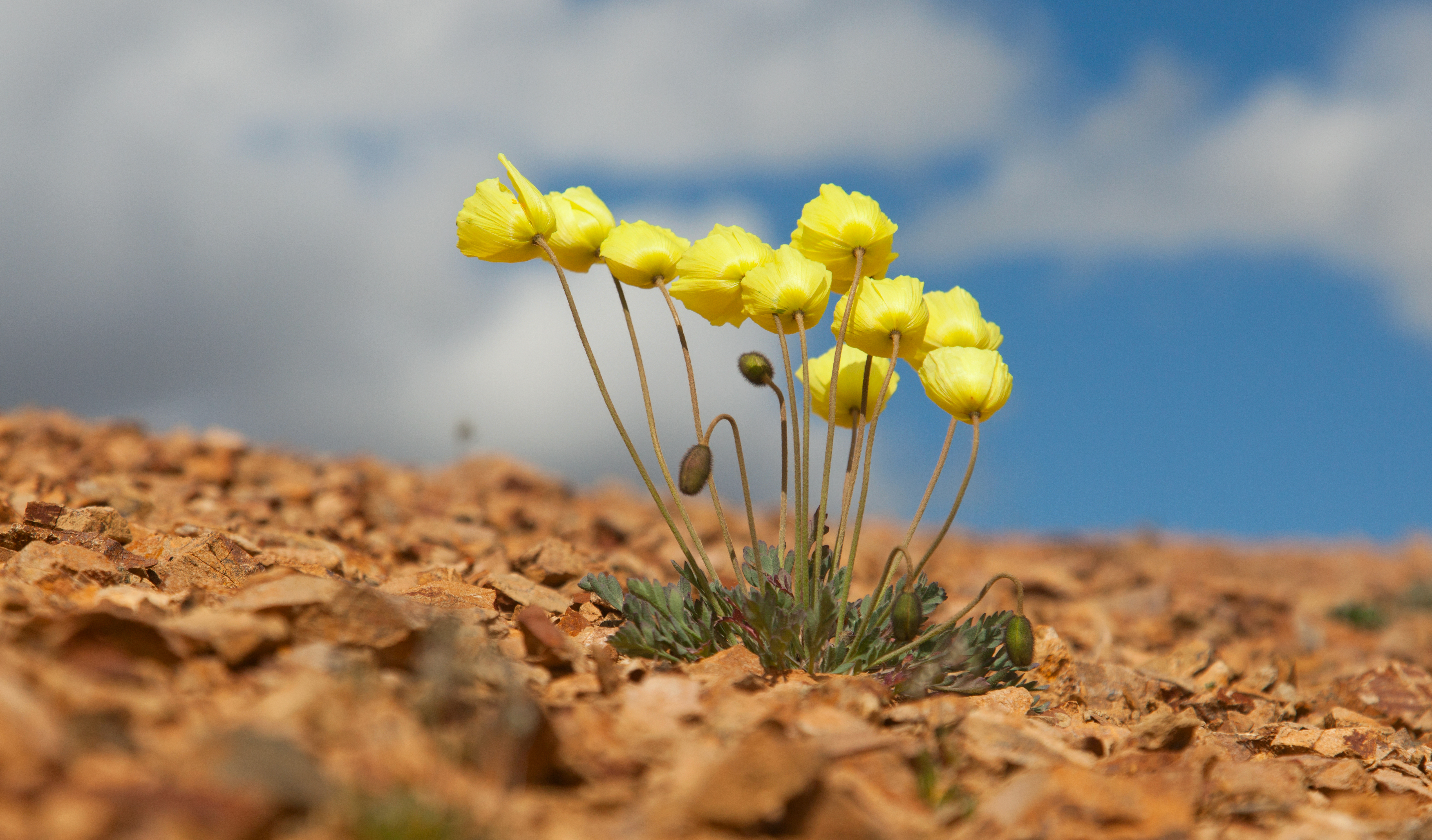 Papaver pseudocanescens - polar poppy in the Altai Mountains